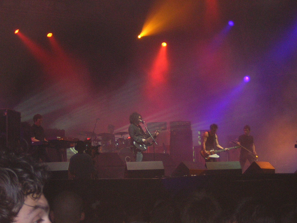 The Cure in concert, Imola, june 2004